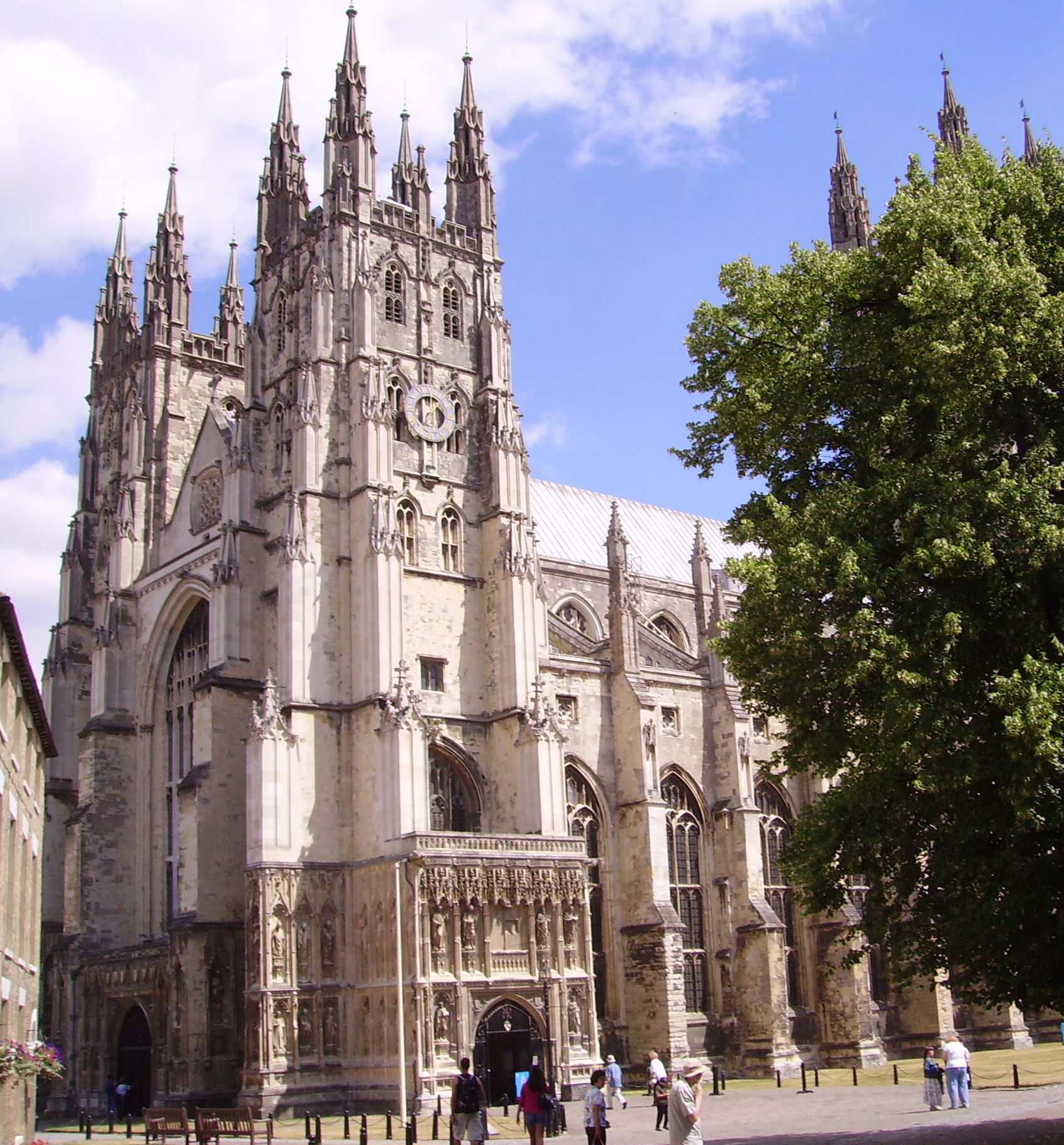 view of Canterbury Cathedral in Canterbury, United Kingdom